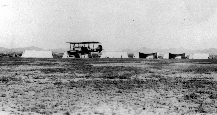 A 1st Aero Squadron Curtiss R–2 takes off at Columbus, New Mexico. Note the hangar tents to the rear. The 1st Aero Squadron and the Mexican Punitive Expedition of 1916.